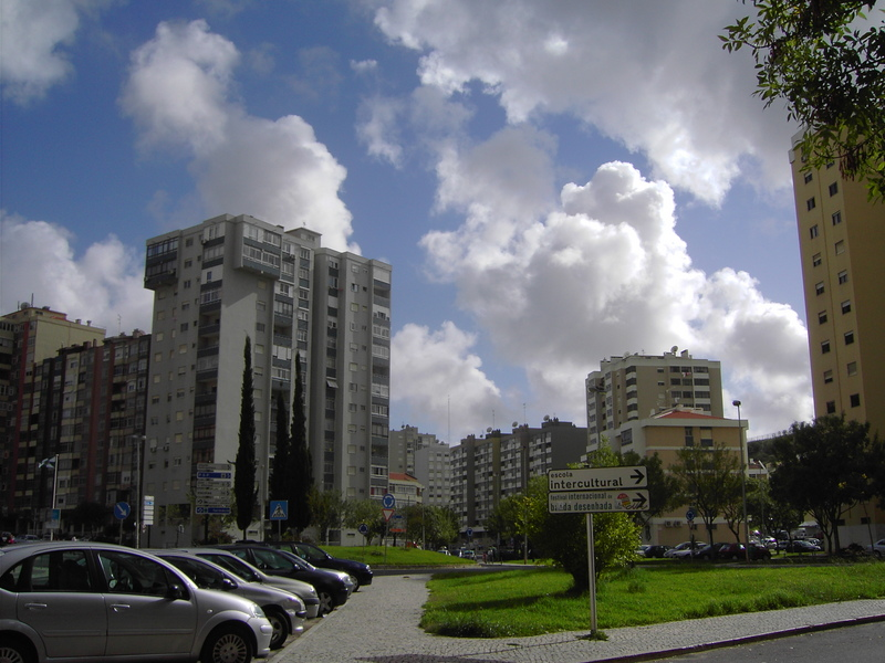 The city of Alfornelos,Amadora in Portugal